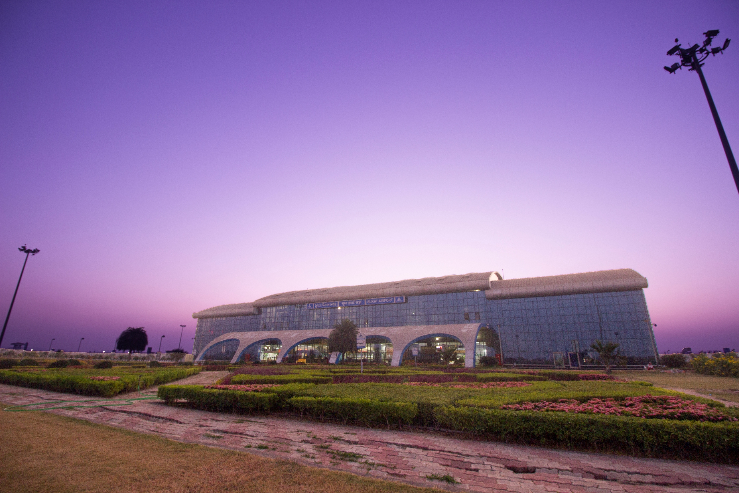 Surat Airport terminal building in early morning